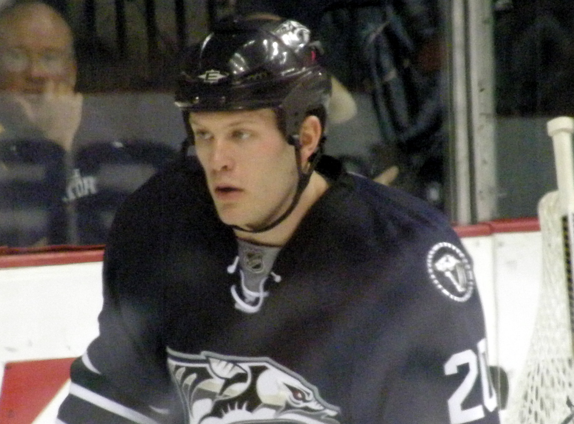 20, Ryan Suter, D, NSH, San Jose Sharks at Nashville Predators, February 6, 2010